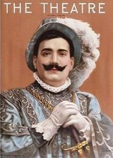 A show poster from the USA showing Enrico Caruso, long public domain as per the copyright laws as it was published prior to 1923.